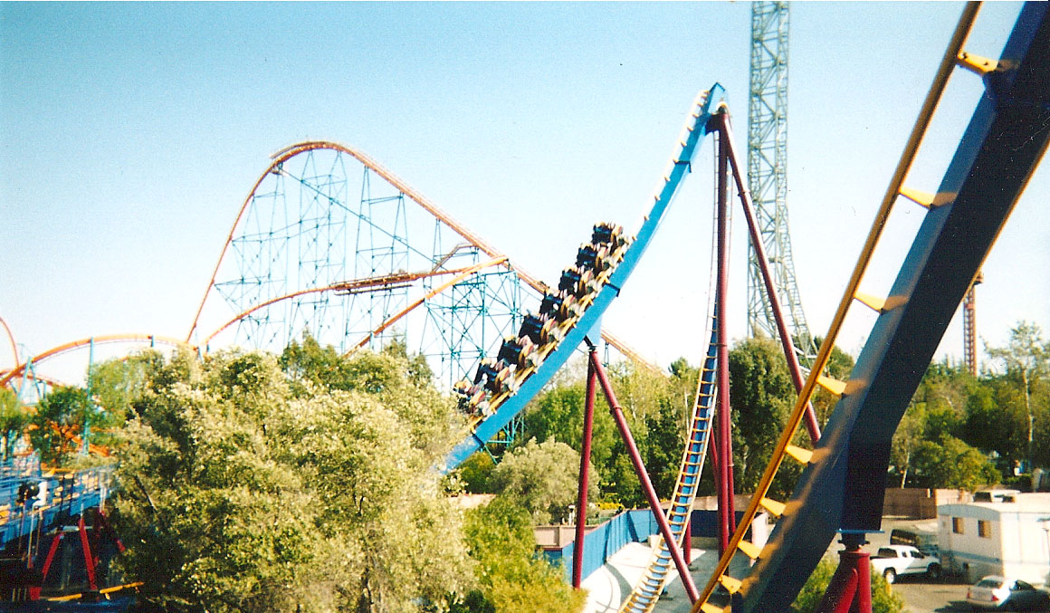 Scream! at Six Flags Magic Mountain